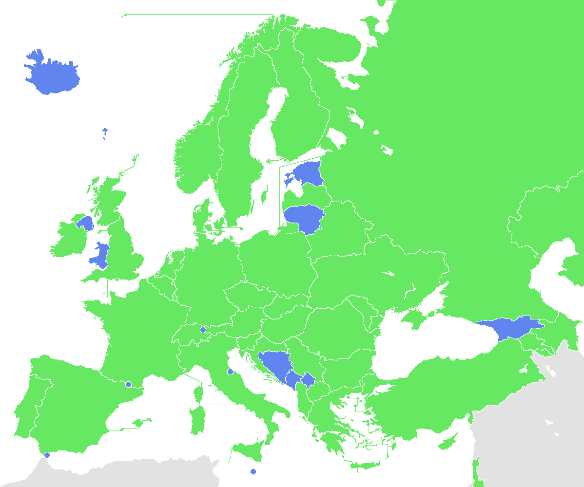 UEFA members and Europa League group stage participation. (based on File:UEFA members Champs League group stage.png, itself based on Europe base map)